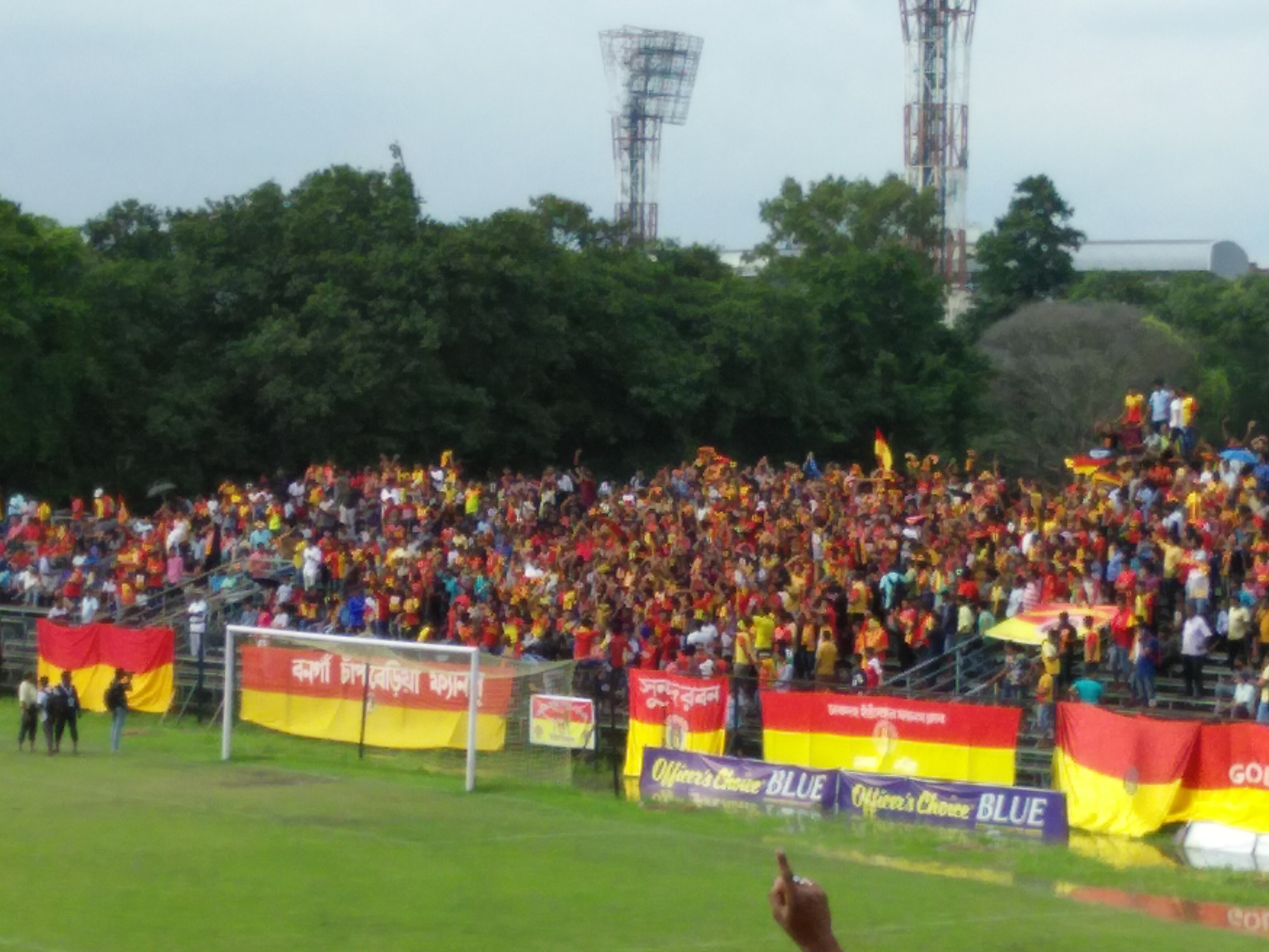 East Bengal Ultras cheering in East Bengal Ground in a CFL match.